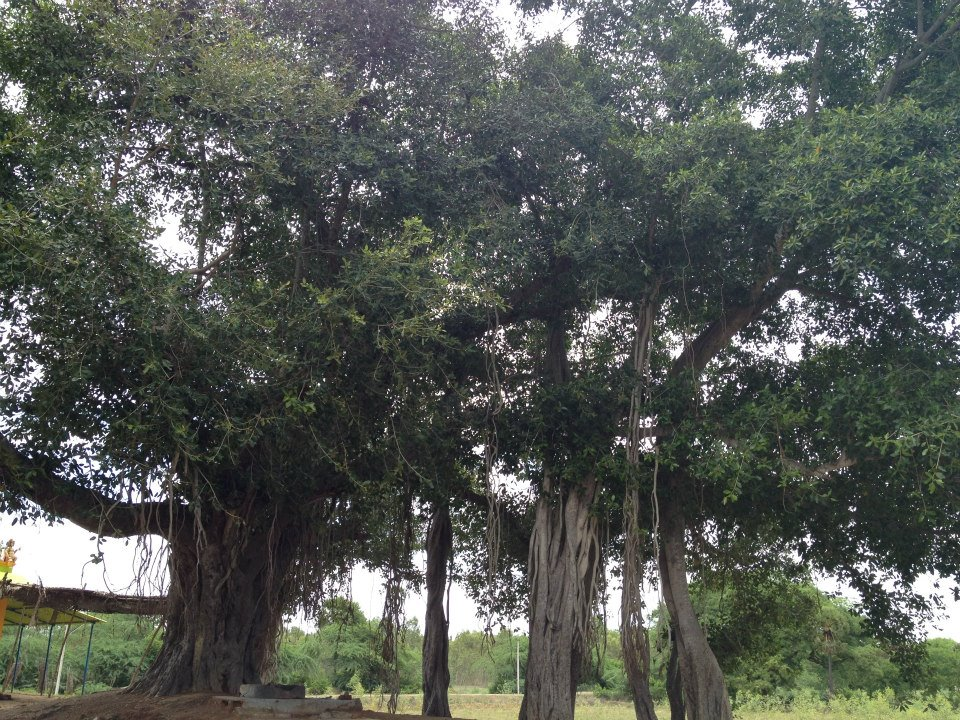 Tree